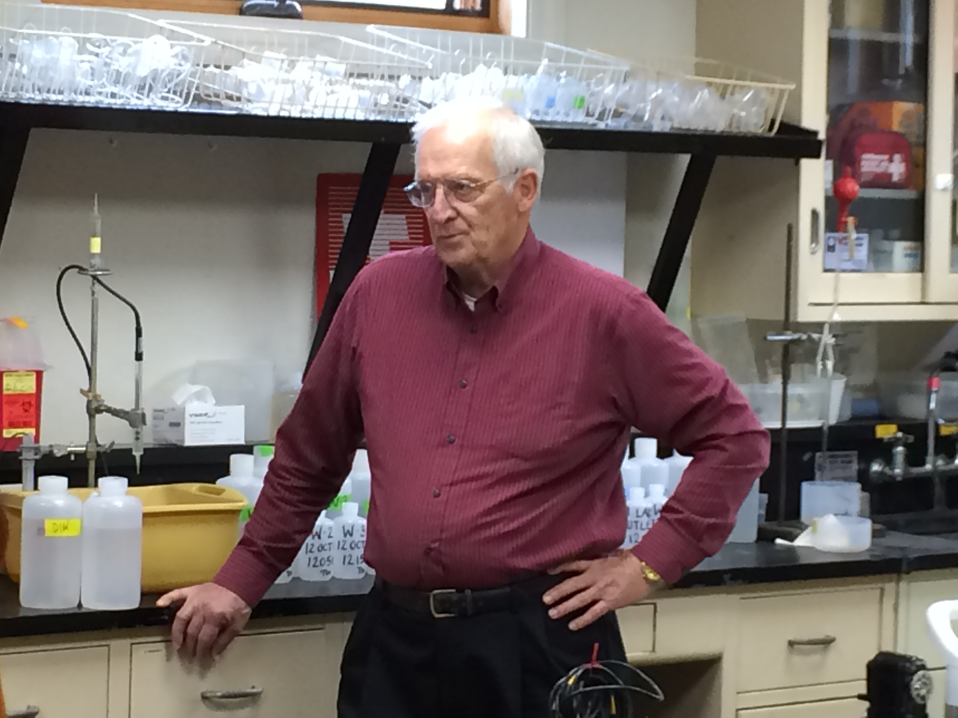 Photograph of Gene Likens, American limnologist and ecologist, in the laboratory at Hubbard Brook Experimental Forest.